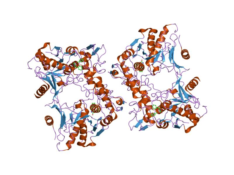 Cartoon representation of the molecular structure of protein registered with 1pvj code.